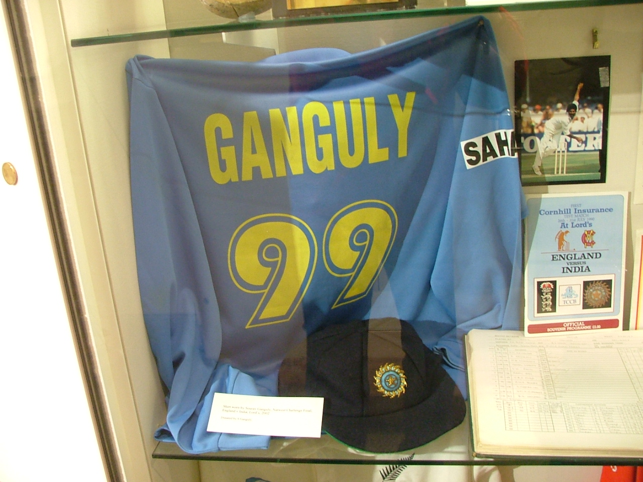 Shirt that Ganguly took of in his "The EPIC Revenge at LORDS" celebration